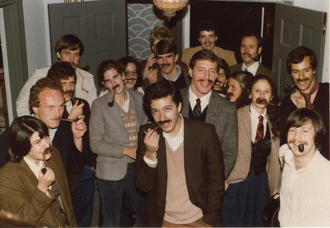 From source (blog of Harry R. Lewis): "In the fall of 1982, I taught CS50, intro CS (it was then called AS11 ...) We graded the hour exam on Halloween and after we were done doing that, the TFs were invited over to my house for dinner. One of them got the bright idea to get up in Harry Lewis Halloween costumes ..."